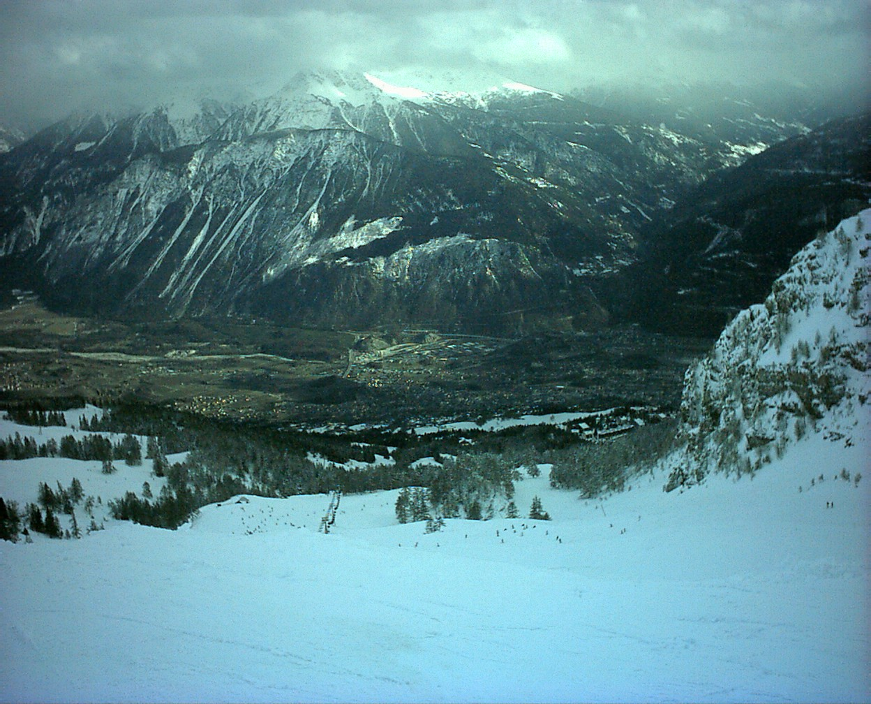 View of Sierre, Valais, Switzerland from Crans Montana